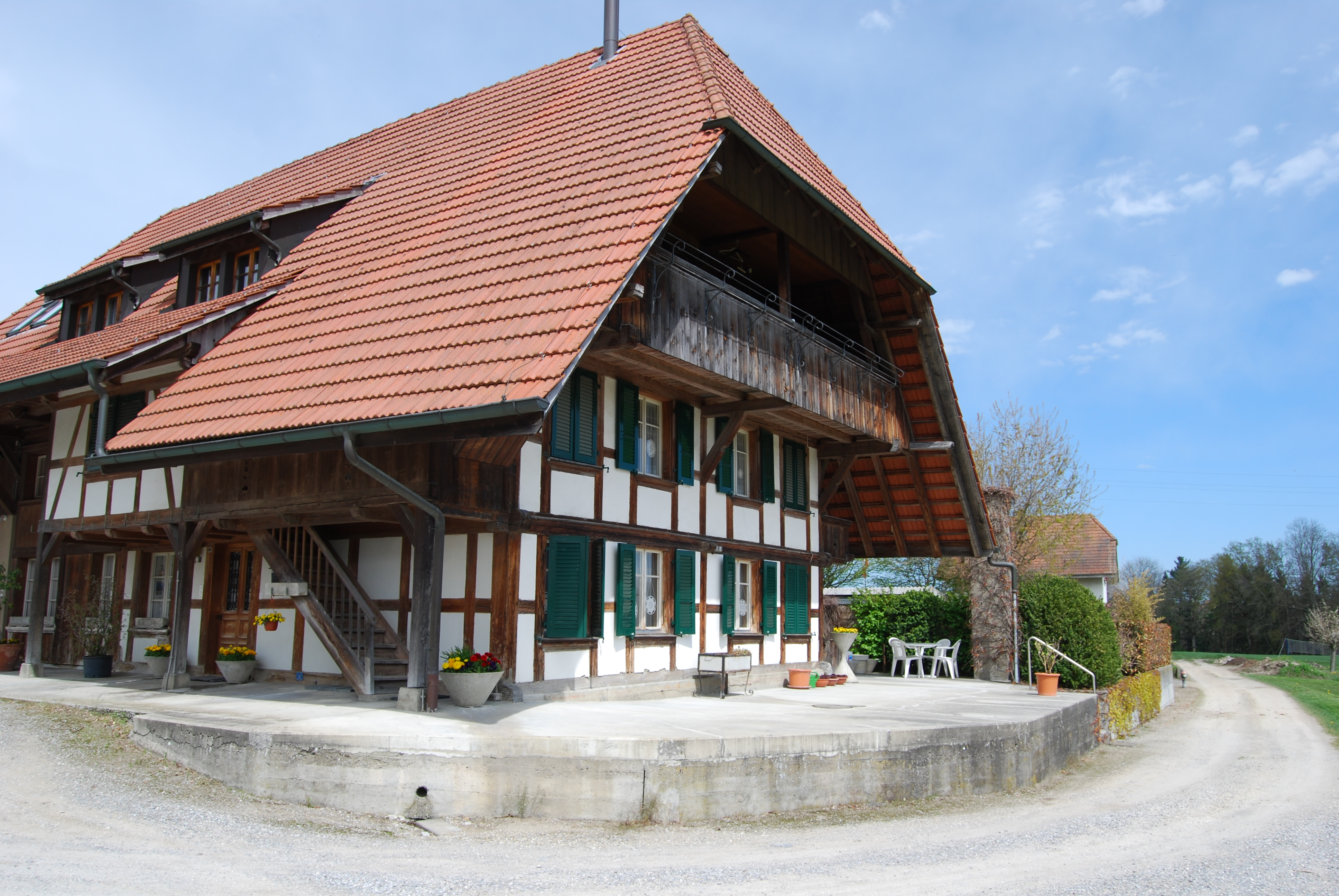 Timber framing house at Kriechenwil, canton of Bern, Switzerland